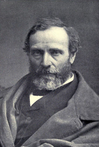 Arthur Hobhouse, 1st Baron Hobhouse circa 1880 aged 61